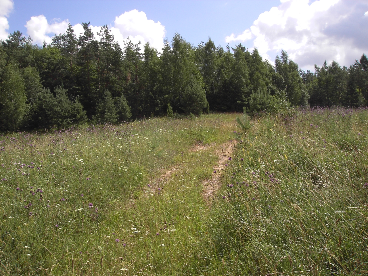 Hill Būdakalnis in Ažušilė, Ignalina district, Lithuania